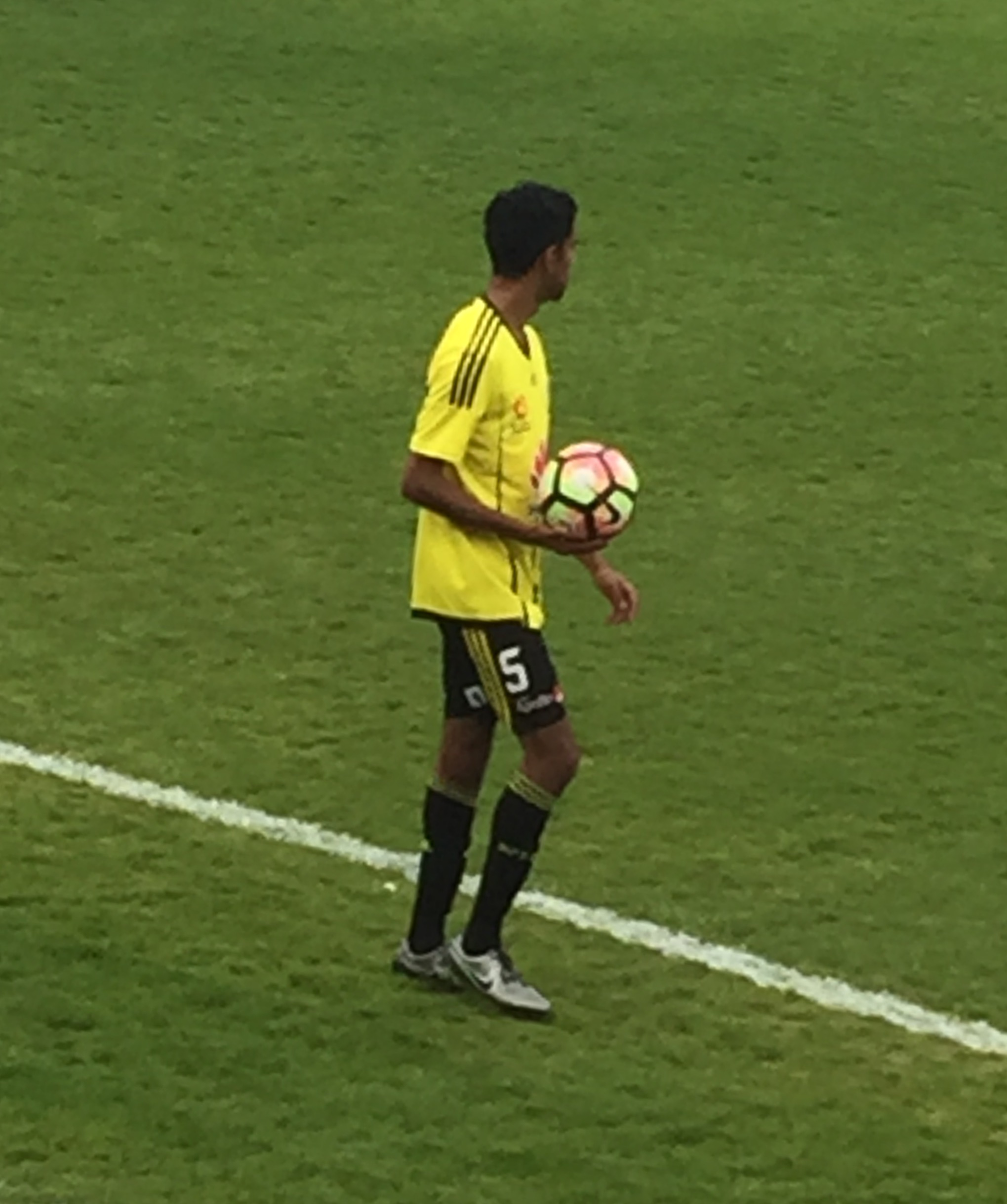 Shayne D'Cunha playing for Wellington Phoenix FC against Central Coast Mariners FC at Knox Grammar School on 17 September 2016